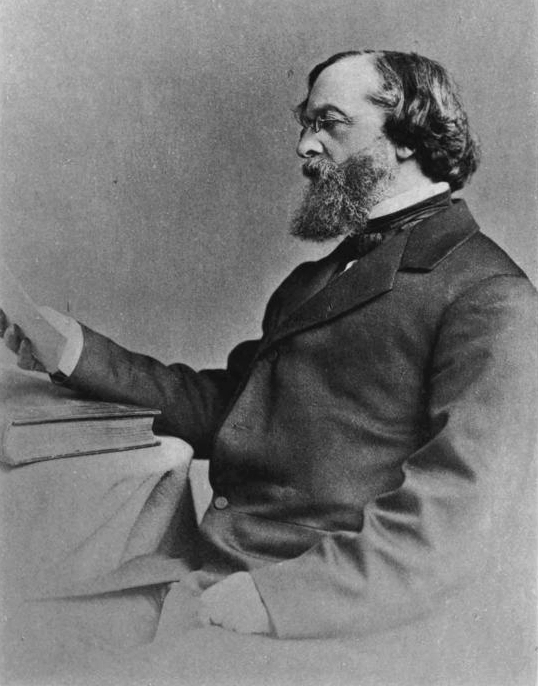 Image of James Freeman Clarke, from Seventieth Birthday of James Freeman Clarke: Memorial of the Celebration by the Church of the Disciples, Monday Evening, April 5, 1880.